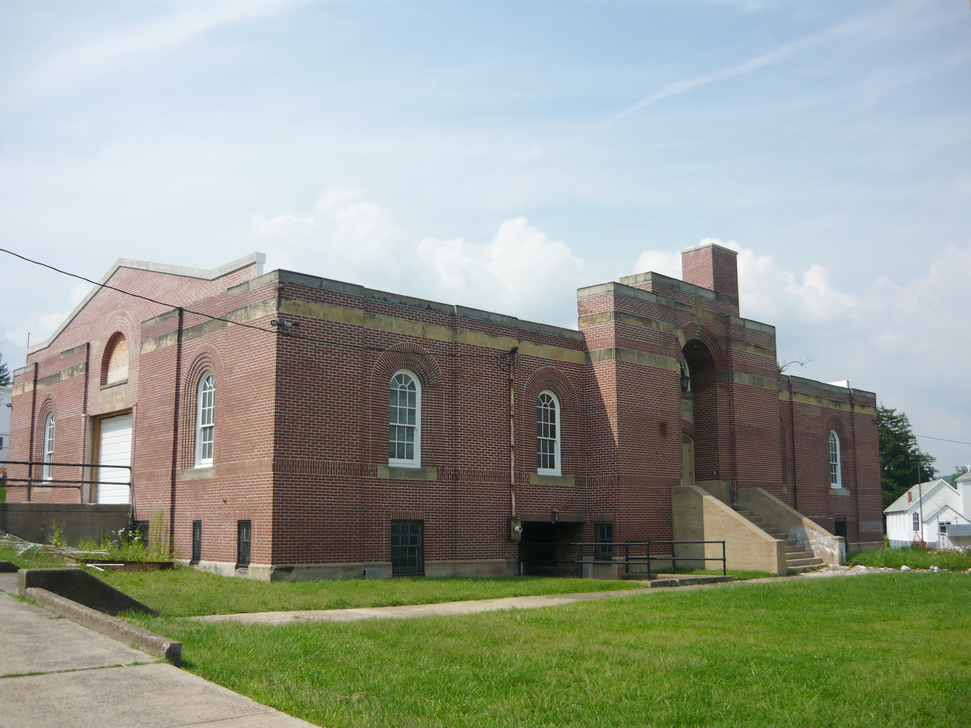 Scottdale Armory, 501 North Broadway Street (at Edwin Avenue), Scottdale, Westmoreland County, Pennsylvania.